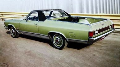 1971 GMC Sprint